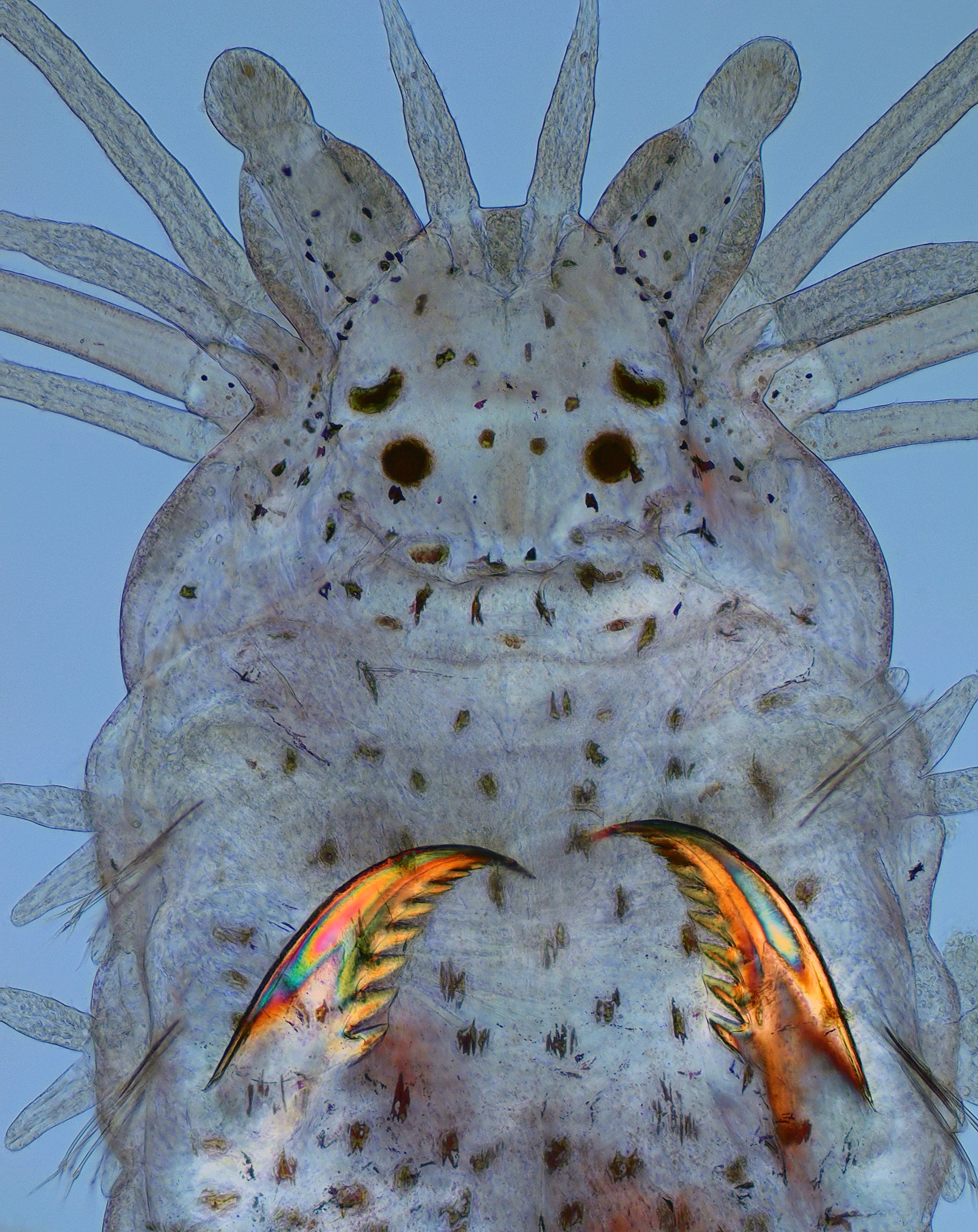 Polychaete errantia marine worm, 10x polarized light